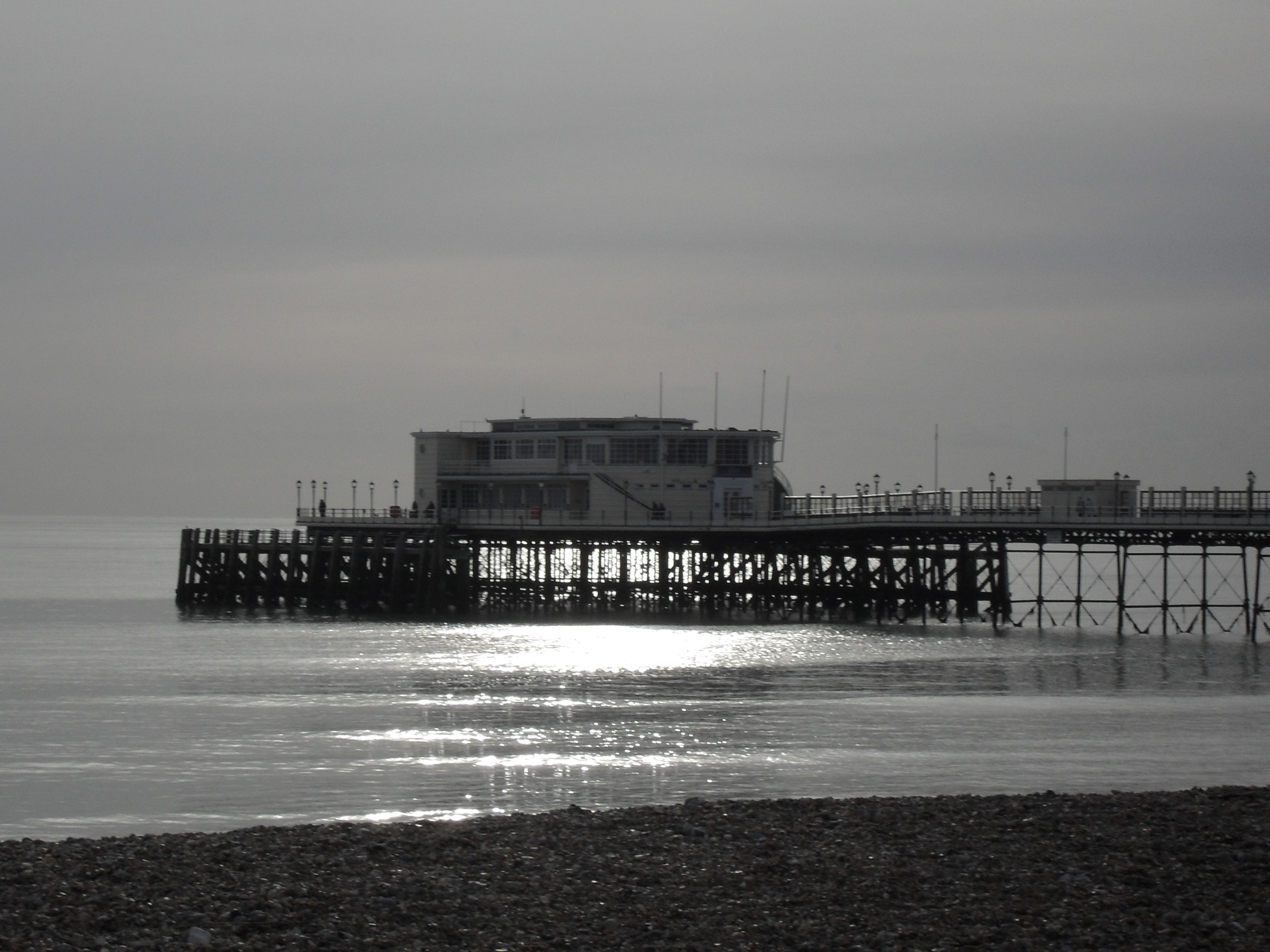 The sea end of Worthing Pier, a Grade II listed building (IoE Code 432812), in West Sussex, England.